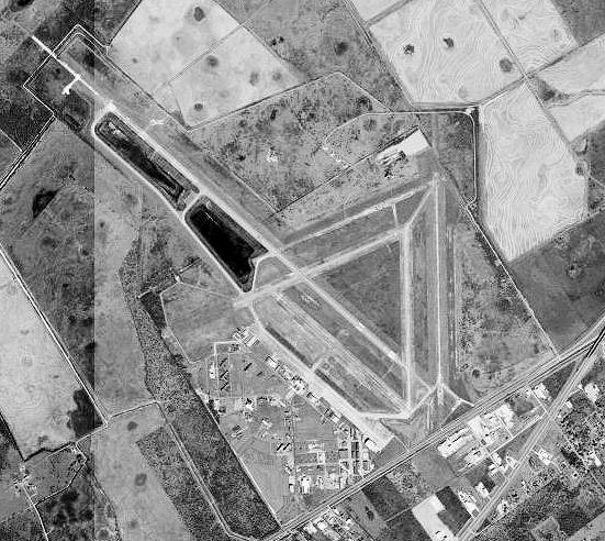 Victoria airport, TX - 27Jan 1996 Source: United States Geological Survey digital orthophotoquad via TerraService WebMap Server